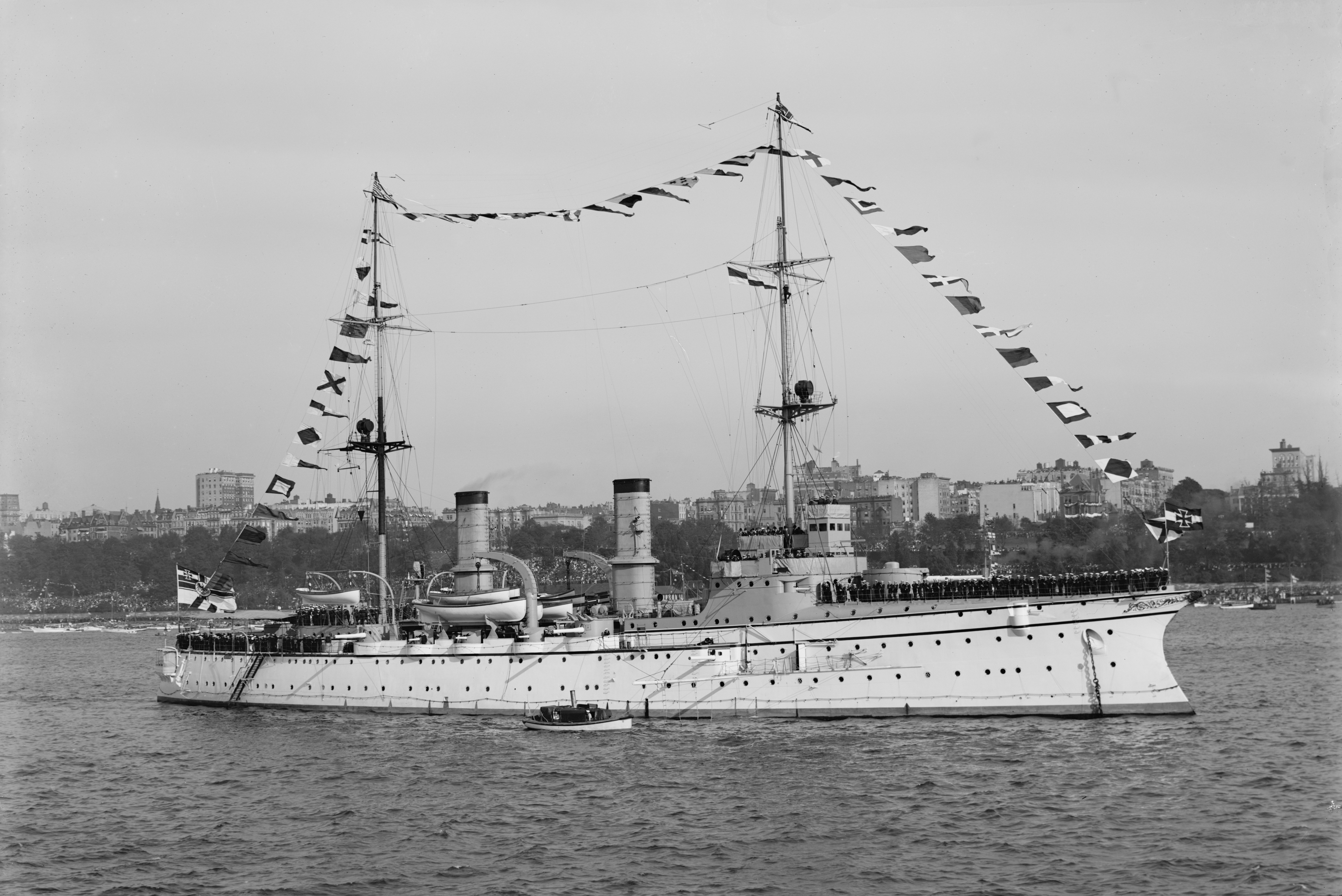 The German armoured cruiser SMS Hertha during a visit to New York City (USA) on occasion of the "1909 Hudson-Fulton Celebration" in 1909. From Saturday, 25 September, to Monday, 11 October 1909, the U.S. state of New York commemorated the 300th anniversary of the discovery of the Hudson River by Henry Hudson in 1609 and the 100th anniversary of the first successful navigation of the river with a steamboat Robert Fulton in 1807.